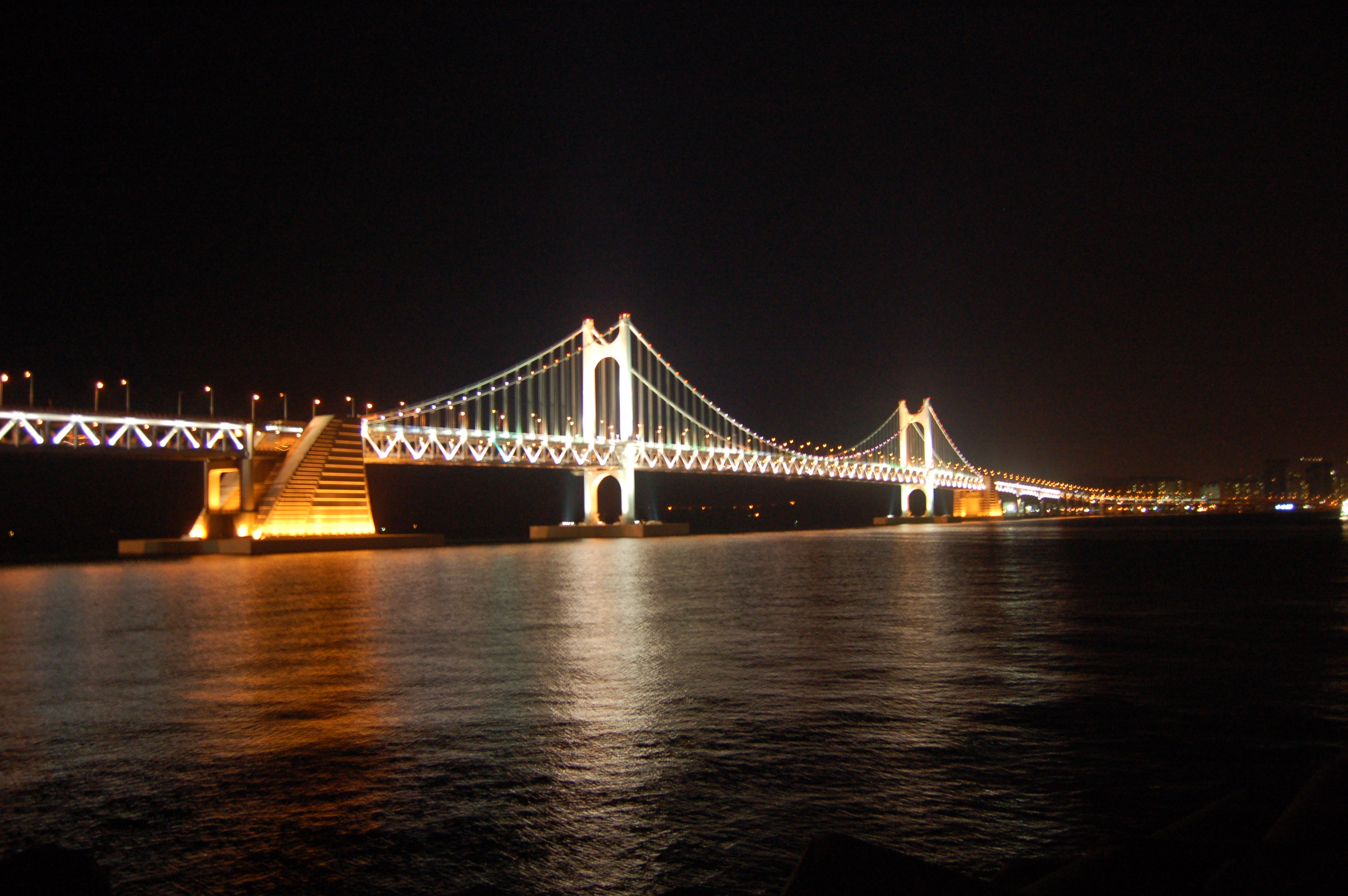 Gwangan Bridge, Busan, South Korea at night.